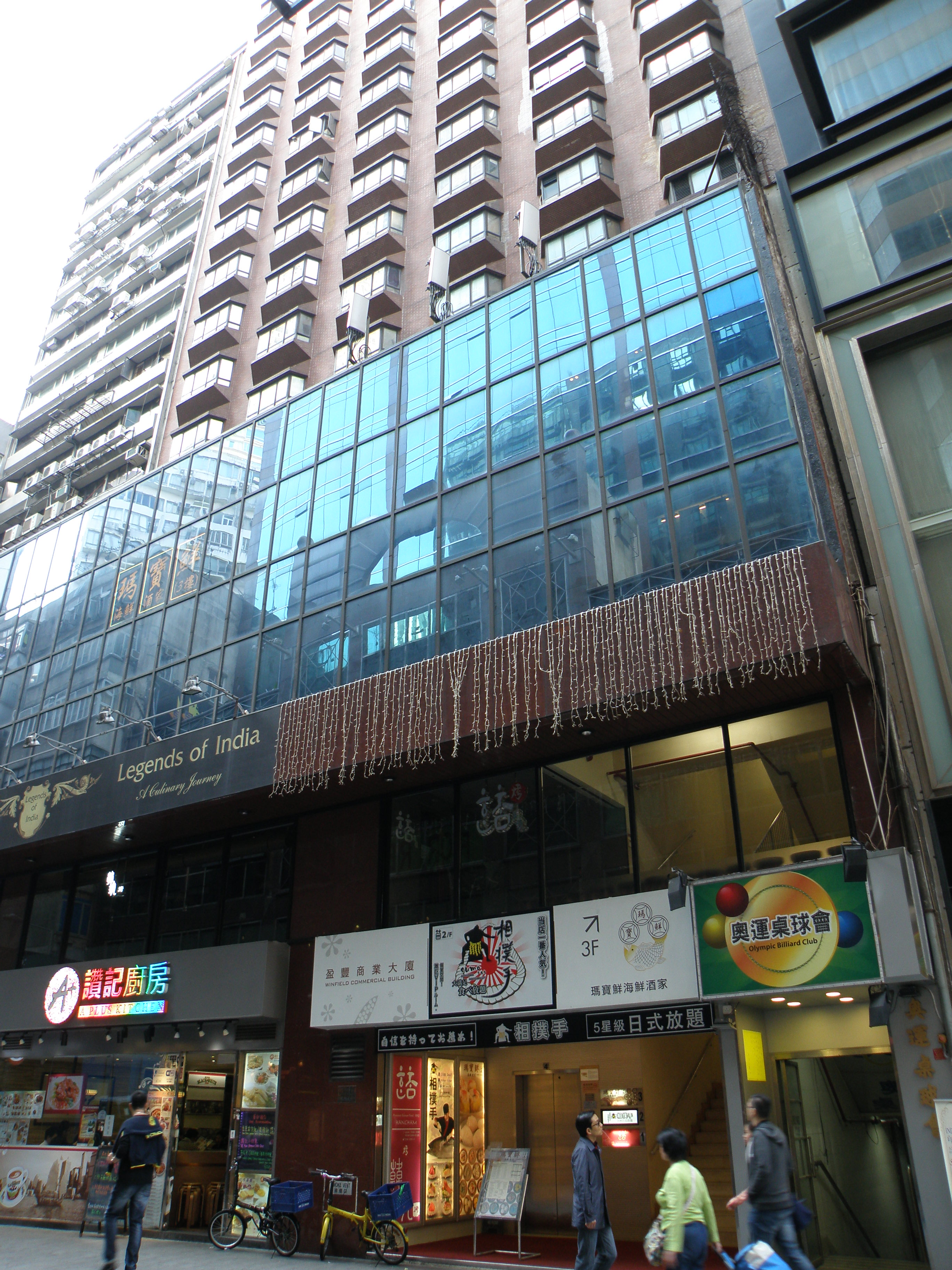 Winfield Commercial Building in Tsim Sha Tsui, Hong Kong.